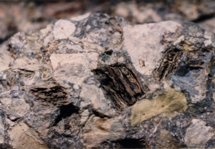 Pappenheim Cave.